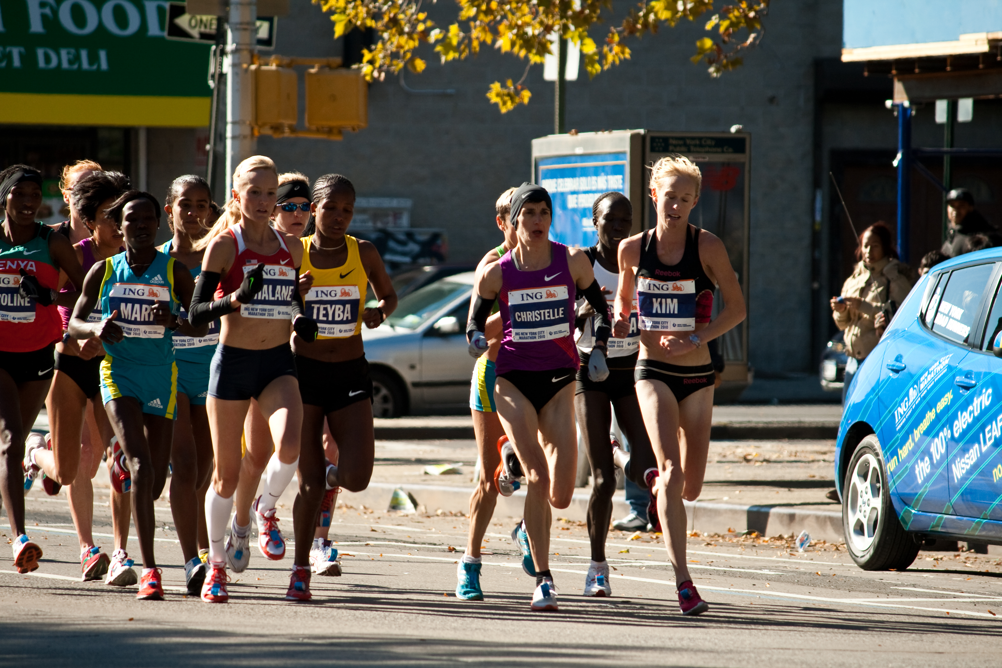 Women's leading pack at Mile 17 - Shalane Flanagan (USA), Christelle Daunay (FRA), Kim Smith (NZL), Teyba Erkesso (ETH), Mary Keitany (KEN)